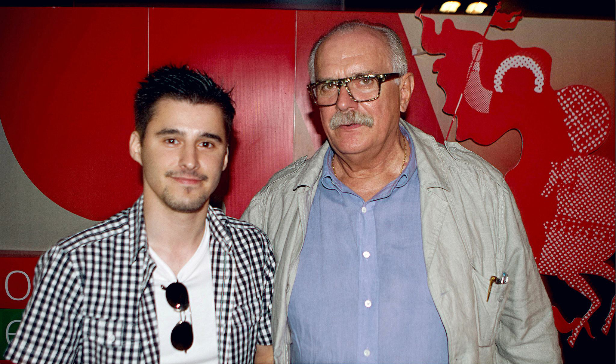 (L-R) Producer Josh Wood and Academy Award-winning director Nikita Mikhalkov during 33rd Moscow International Film Festival on June 14, 2011 in Moscow, Russia.